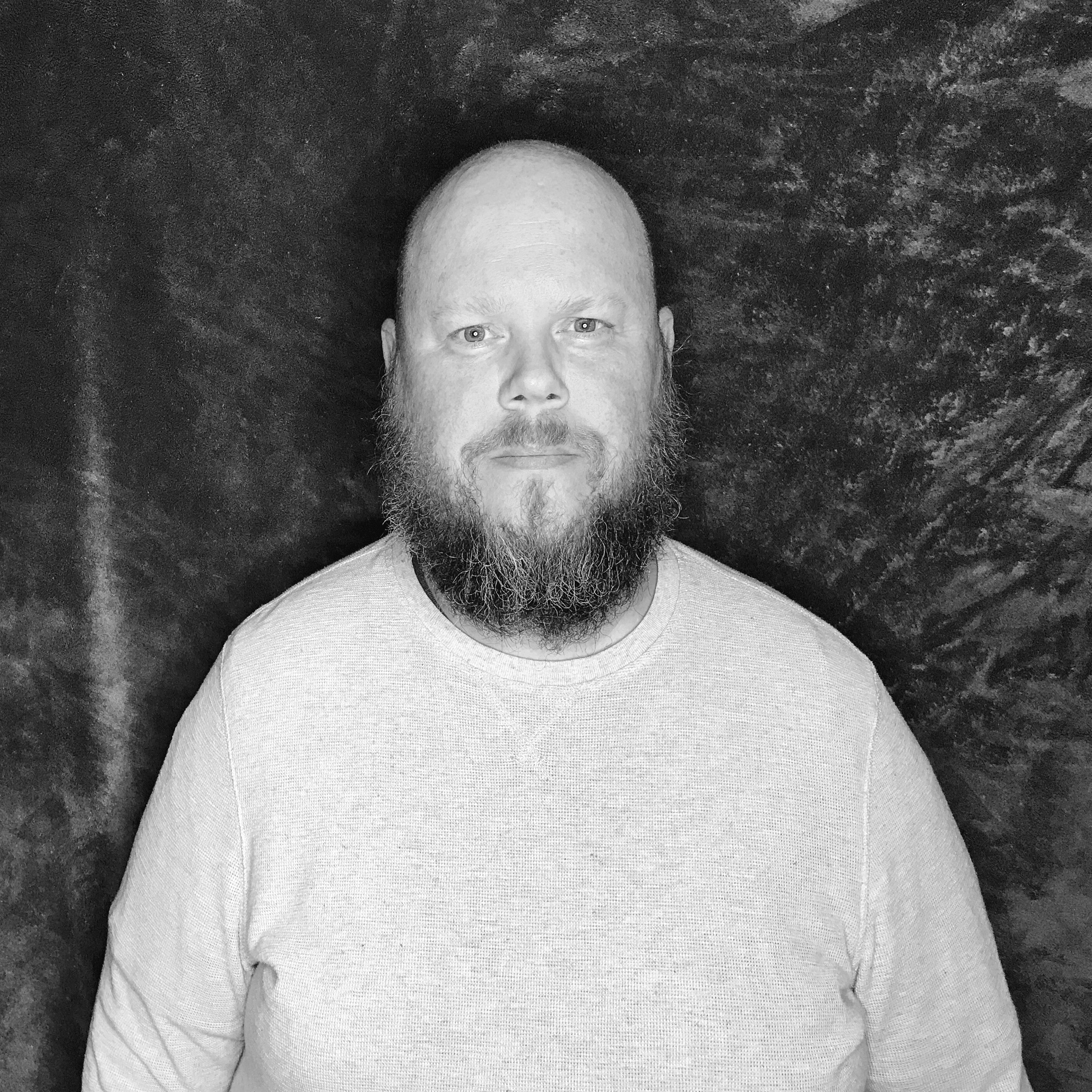 This is a photo of musician Aaron Sarlo, taken in January 2019.